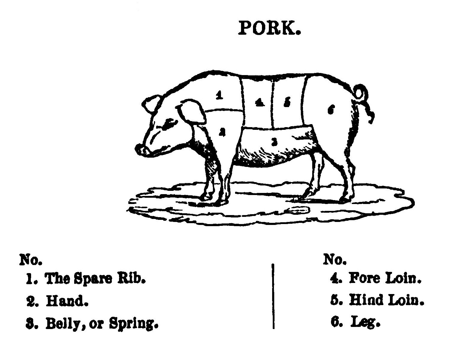 Illustration of pork cuts from Eliza Acton's 1845 work Modern Cookery for Private Families, page 236